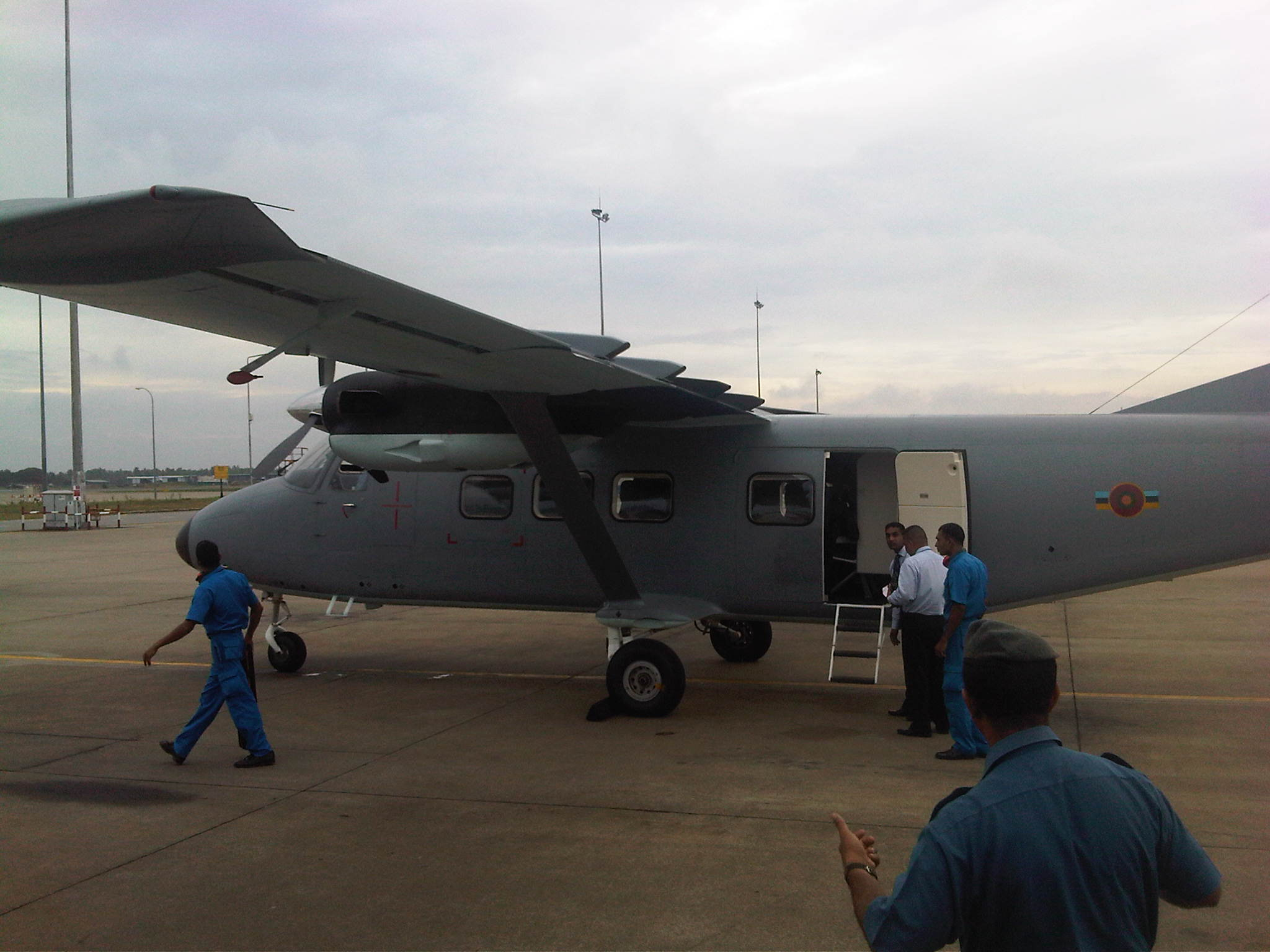 Harbin Y-12-II of Sri Lankan air-force